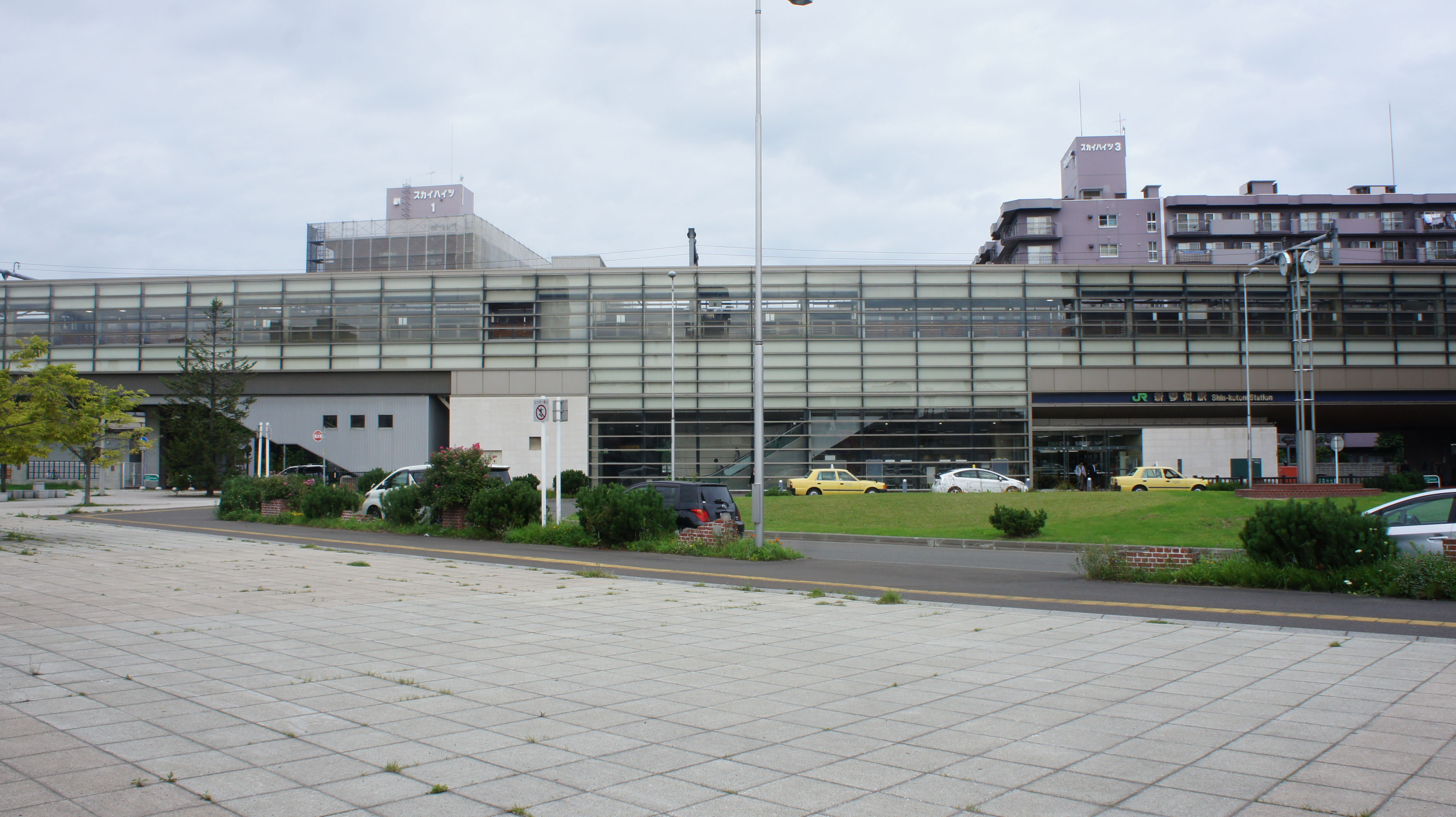 Station building of JR Sassho-Line Shin-Kotoni Station